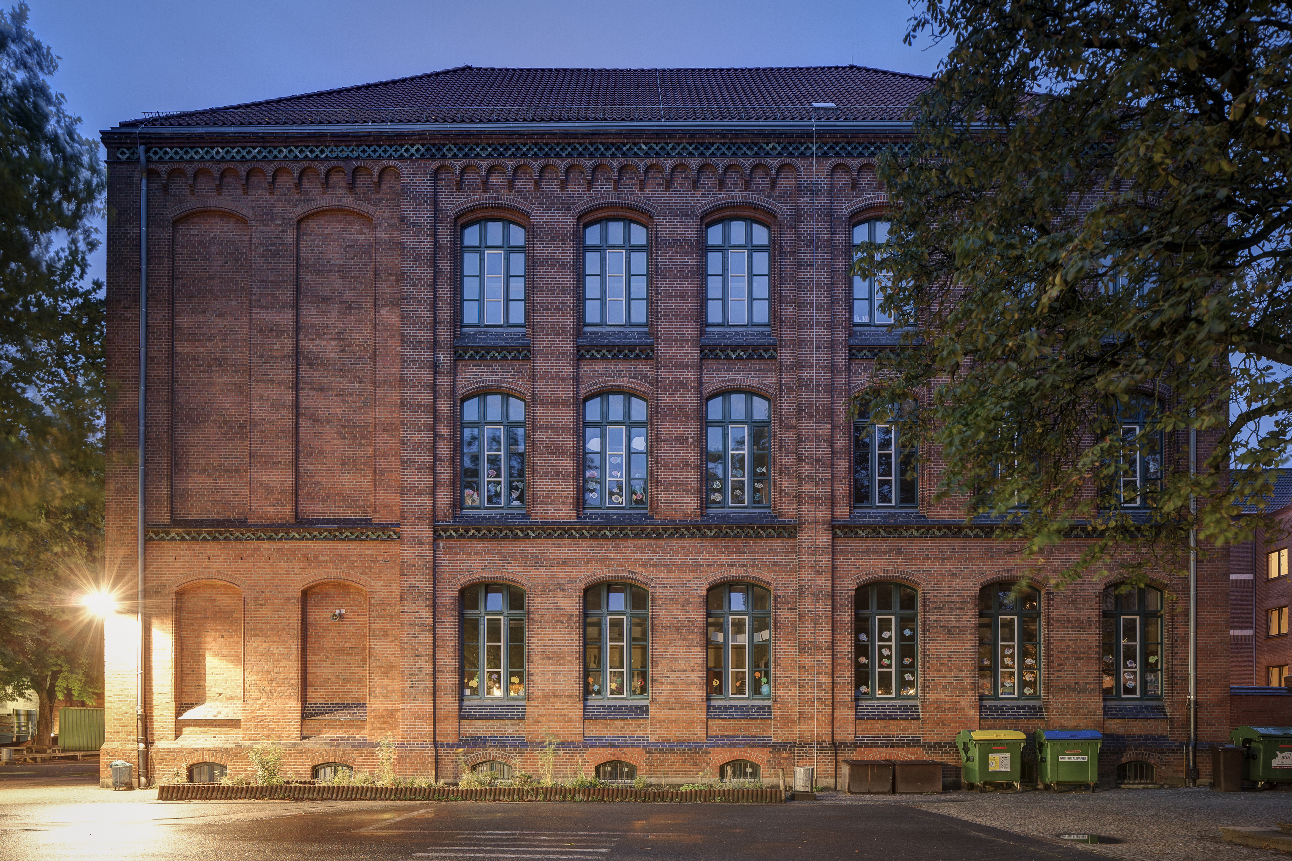 Elementary School "Am Lindener Markt" located in the Davenstedter Strasse 14, Linden central, Hanover, Germany.